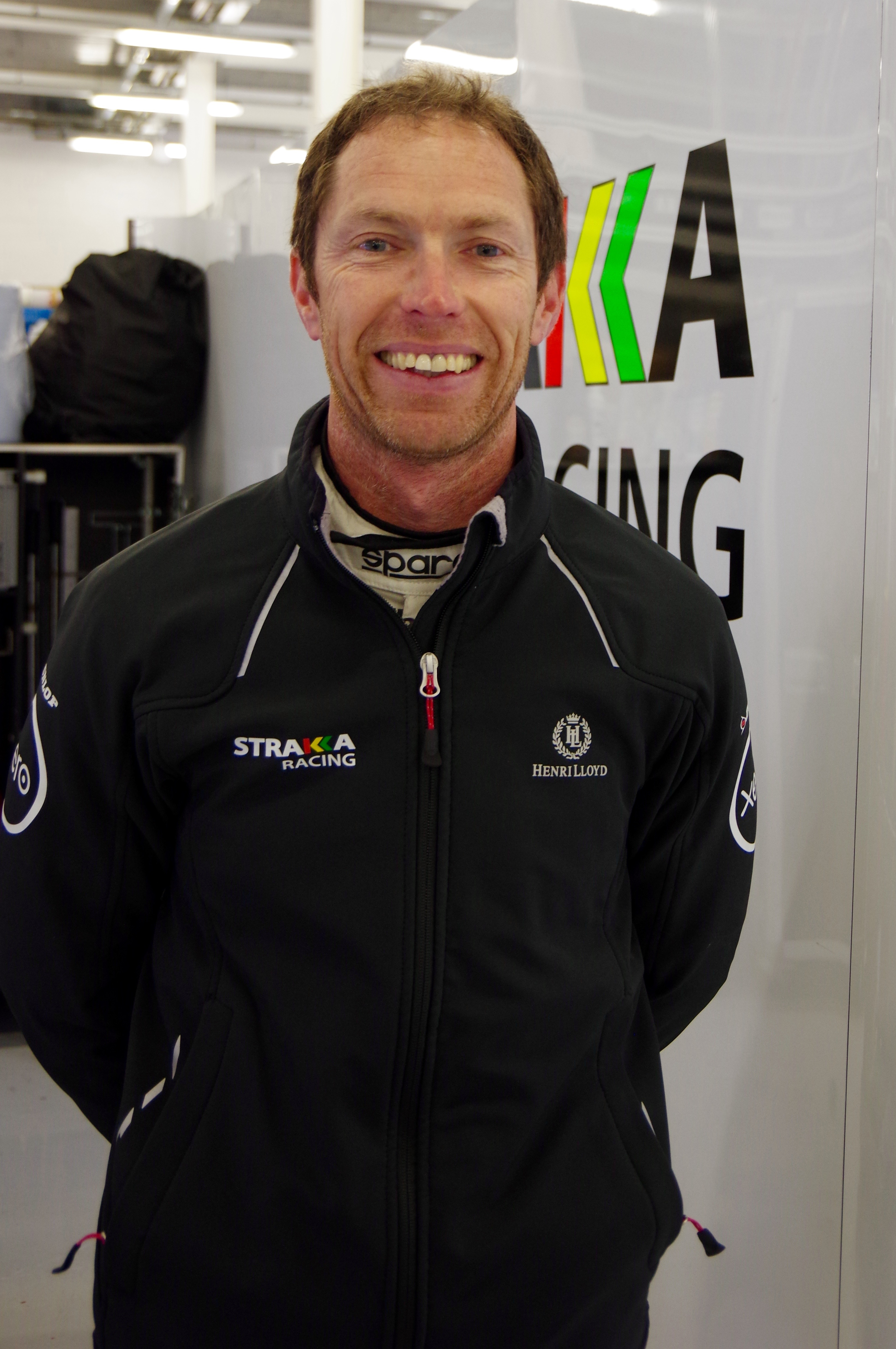 Jonny Kane, driver of Strakka Racing's Gibson 015S Nissan